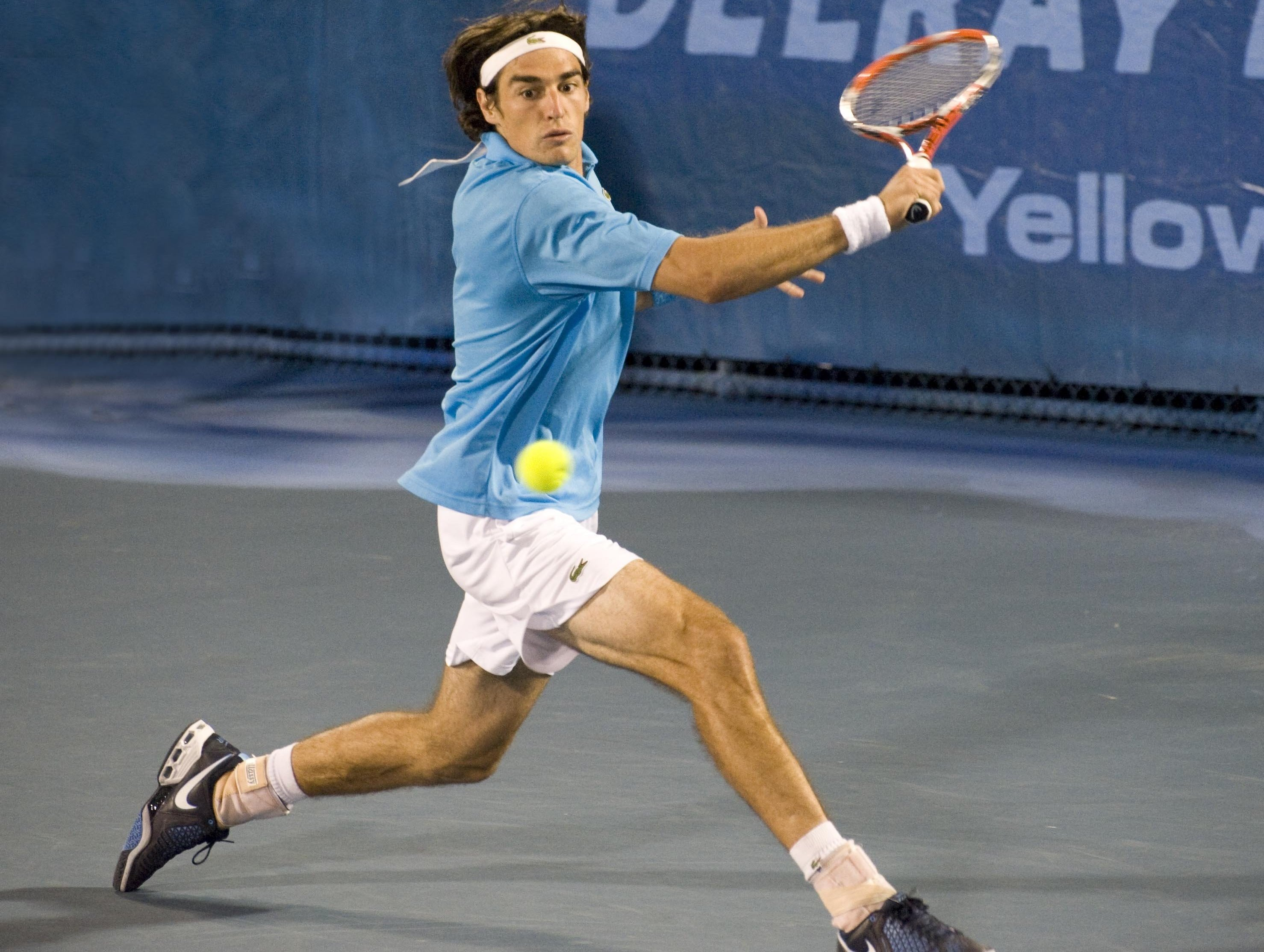 Jérémy Chardy at 2009 Delray Beach International Tennis Championships, Delray Beach, Florida, United States